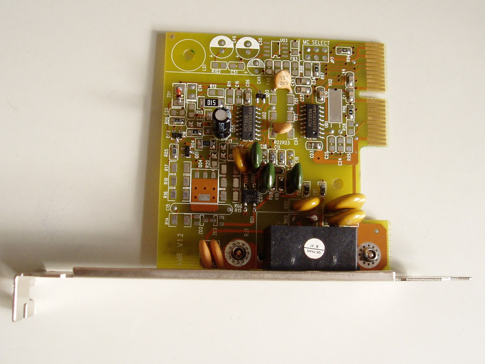 Modem with fax function. AMR interface, a purpose-built interface for expansion cards handling analog signals, can be seen in this photo.